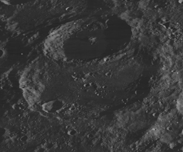 Oblique view of Roche crater (botom) and Pauli crater (top), on the far side of the moon, facing roughly south.